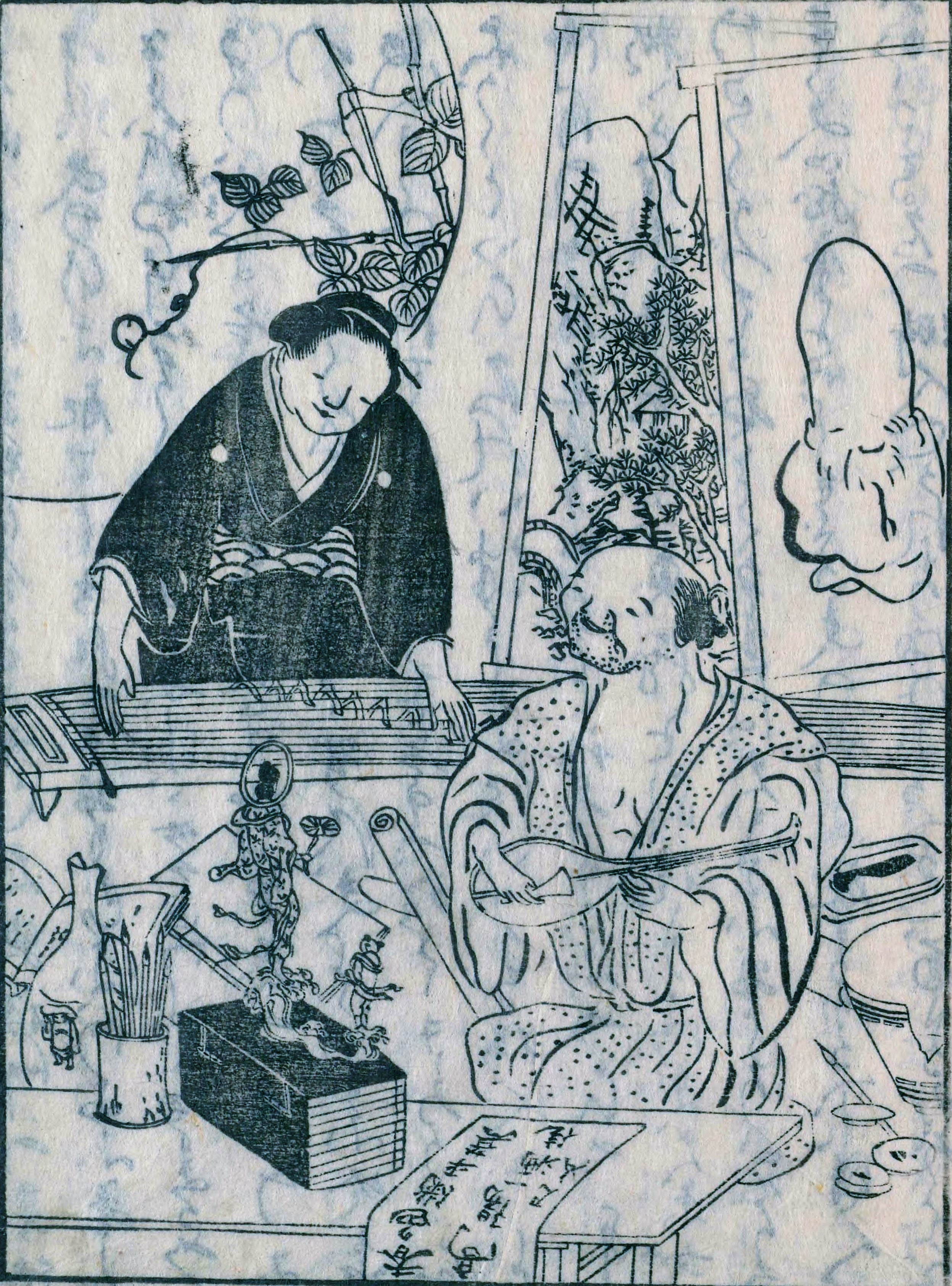 Ike no Taiga and his wife, Gyokuran.